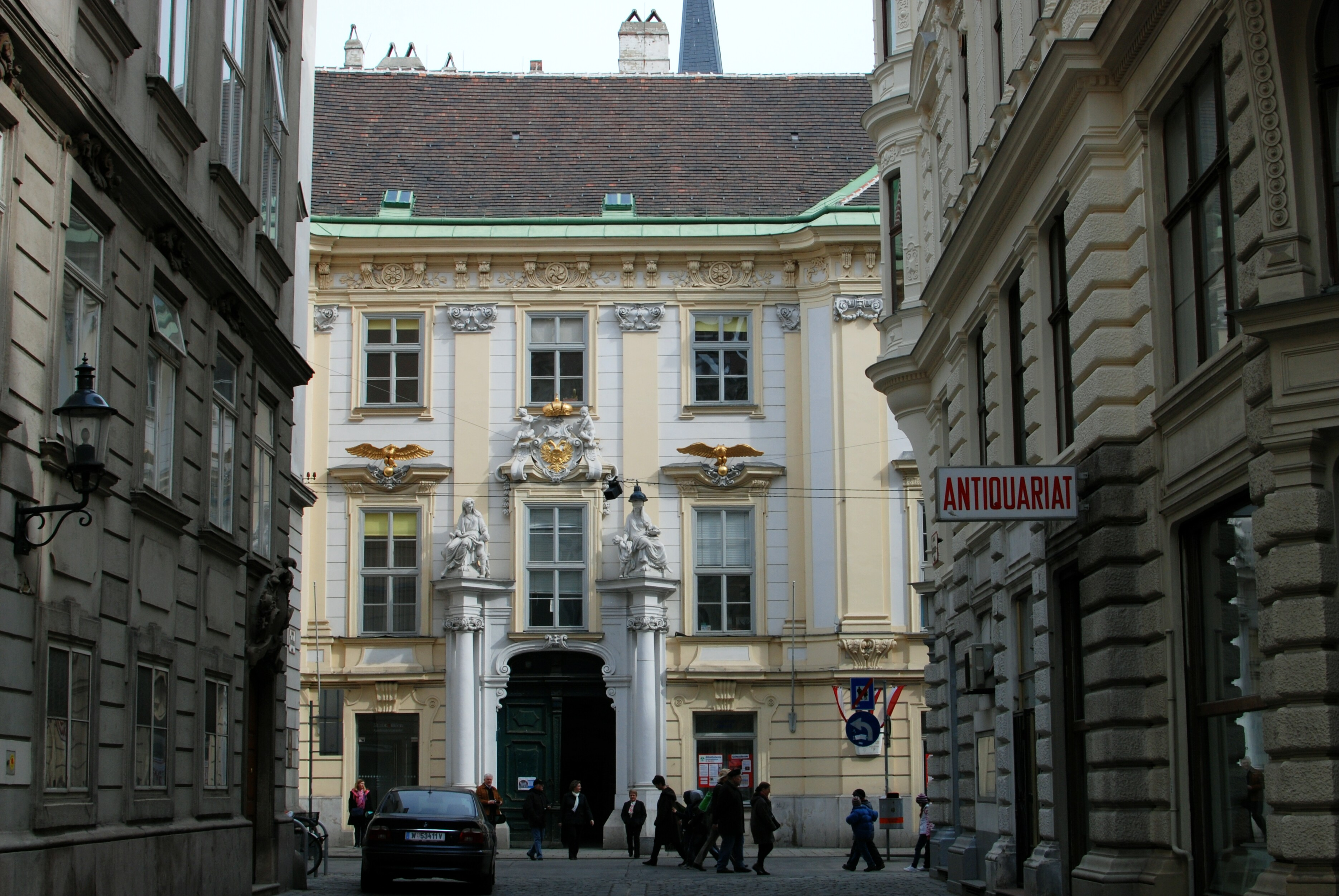 Altes Rathaus mit Andromeda-Brunnen, heute Bezirksamt